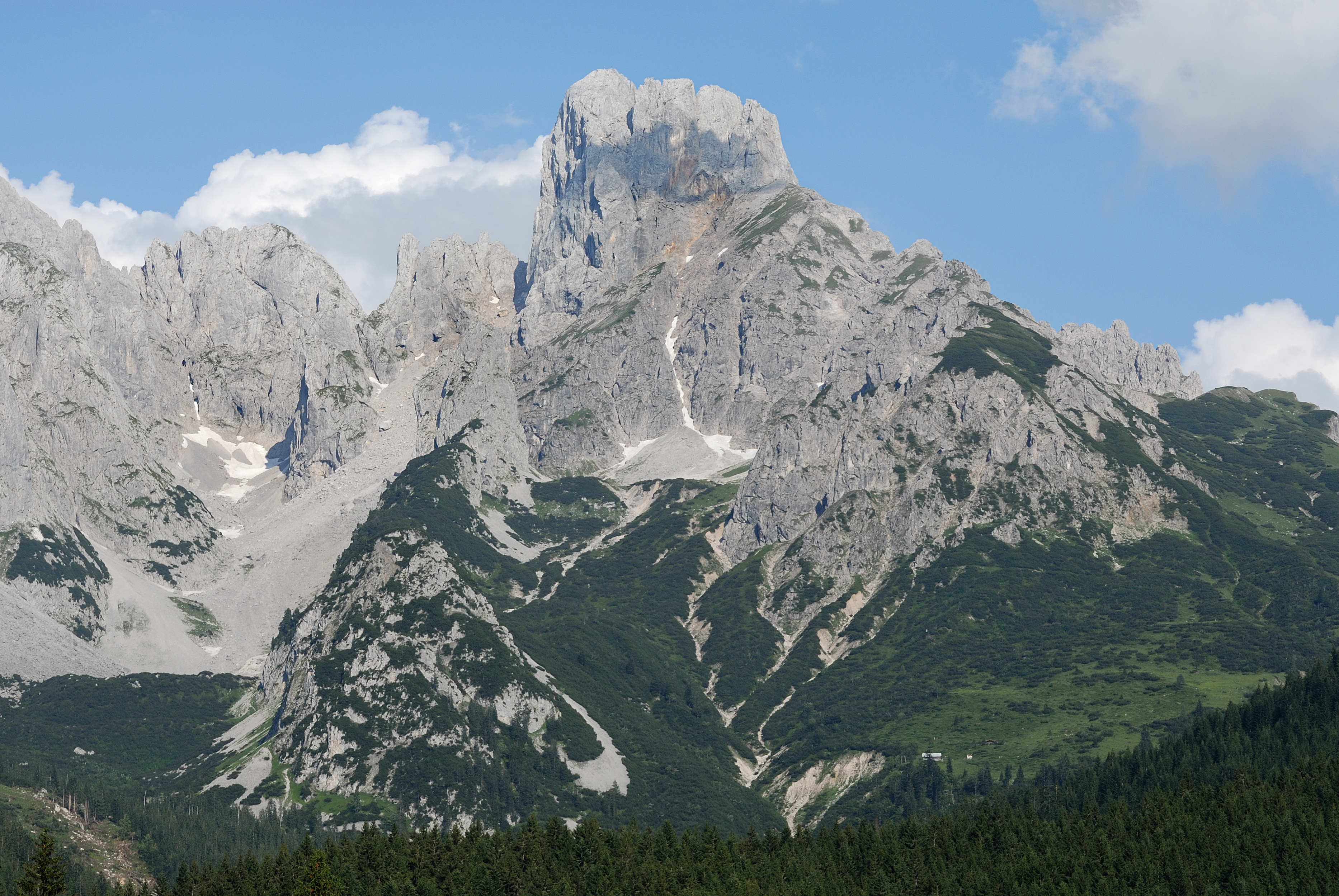 West view of Bischofsmütze (2458 m), the highest peak of Gosaukamm which belongs to the Dachstein mountains. View from Kopfberg, Annaberg-Lungötz.